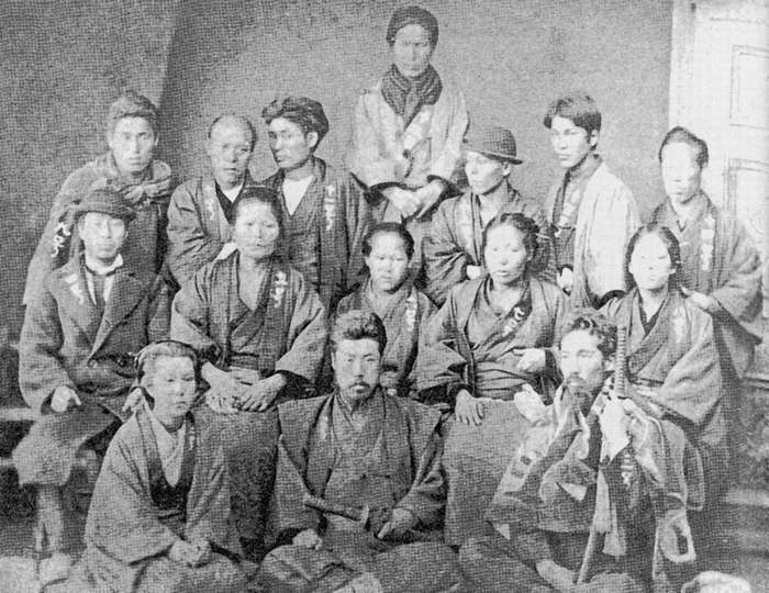 Banseisha (Japanese company)